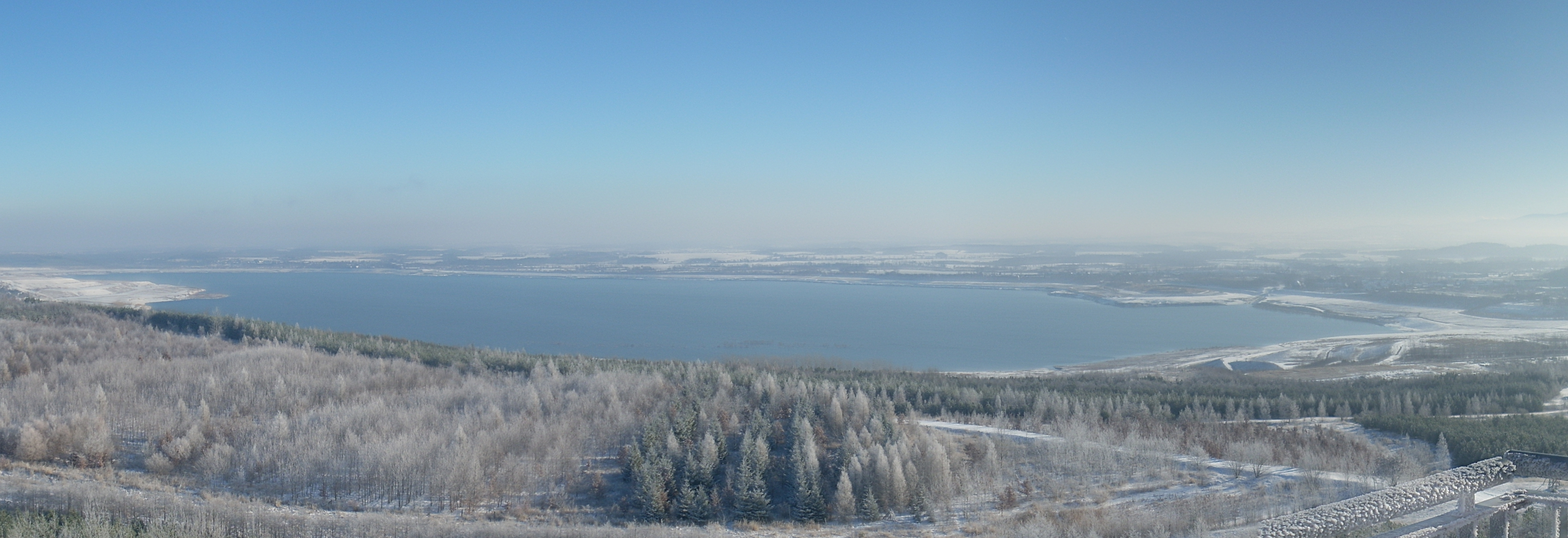 Berzdorfer See from the Tower Aussichtsturm Neuberzdorfer Höhe; assemble with AutoStitch